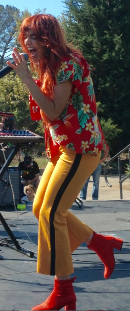 Wortman singing with Smoke Season at Tarfest, September 2018, in Los Angeles, California.